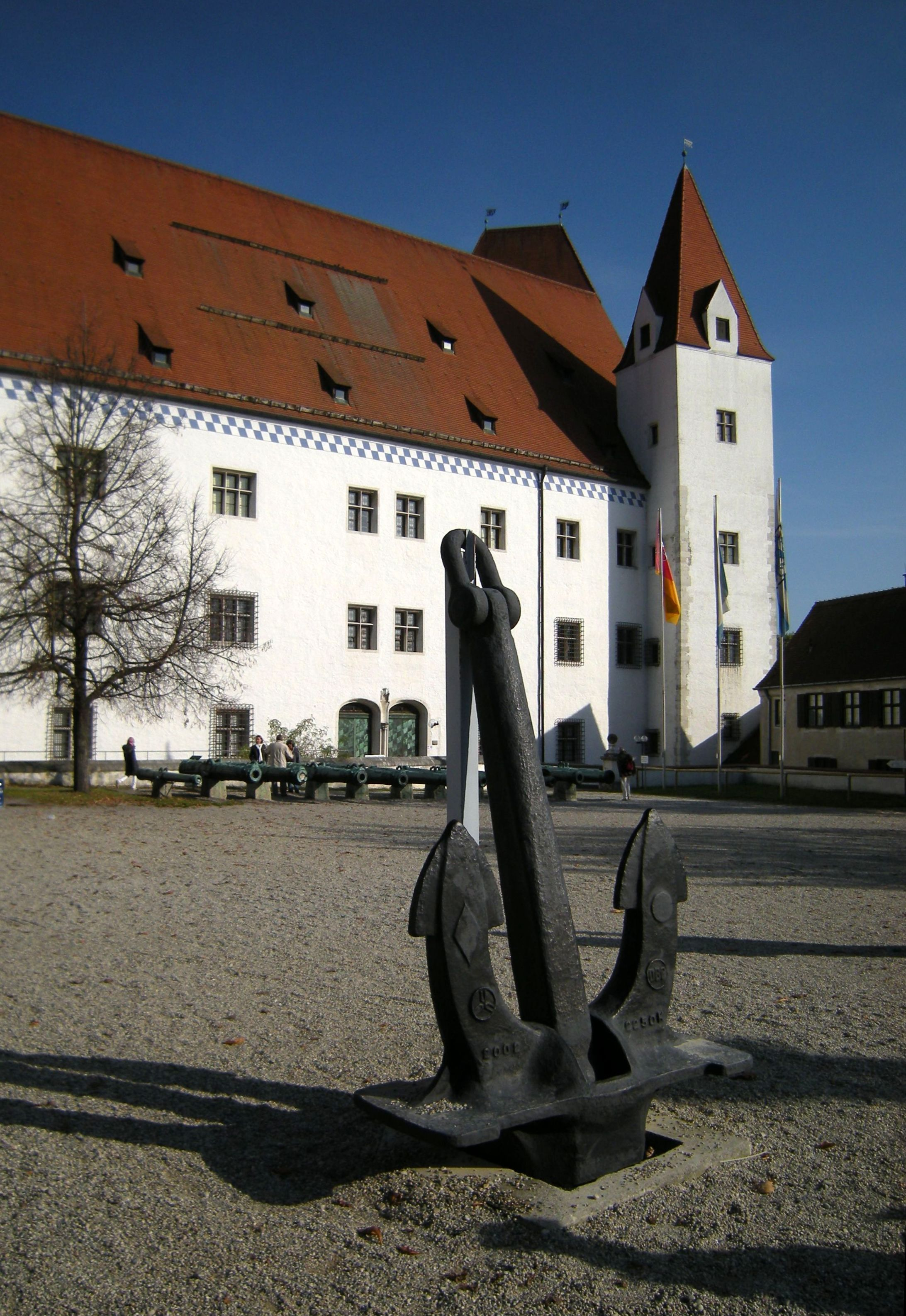 Ingolstadt - New Castle